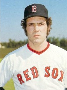 Image cropped from a baseball card of Bernie Carbo from the 1974 Boston Red Sox Yearbook Cards set.